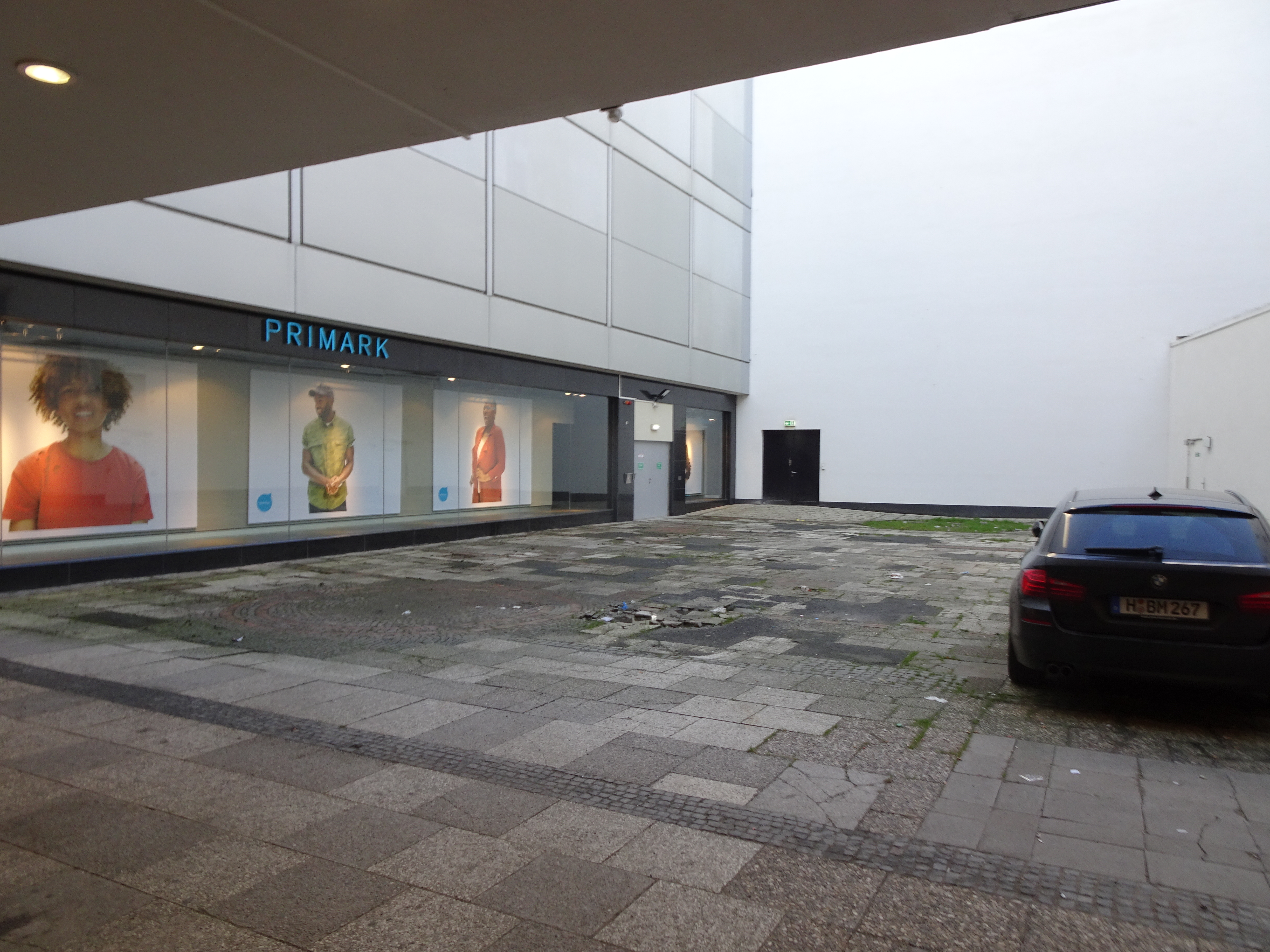 Johannishof in Hannover, Germany